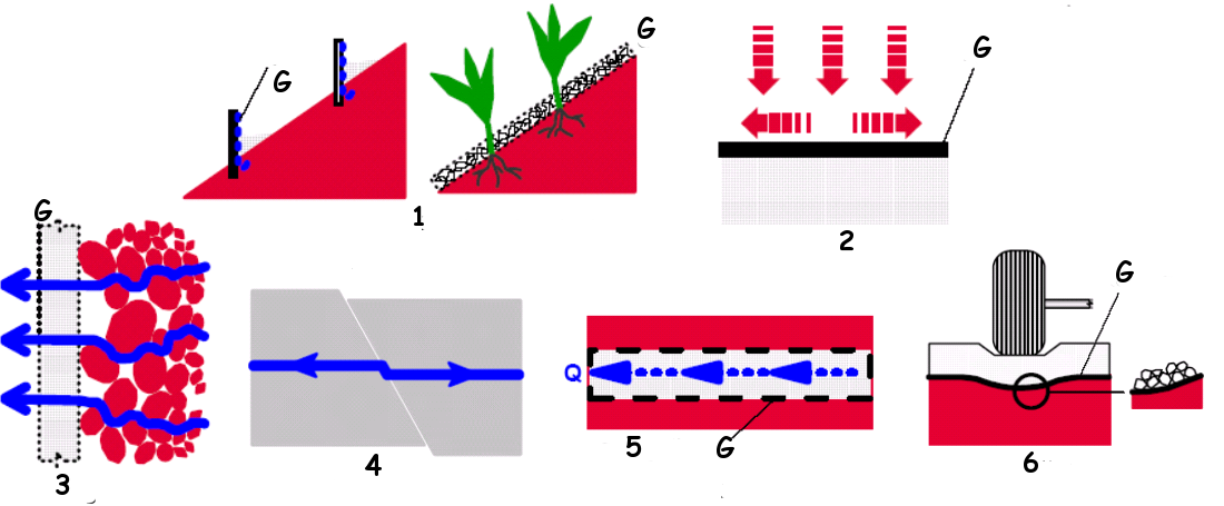 Collection of illustrations showing the basic functions of geosynthetics G=Geotextile; 1=Protection/Erosion control; 2=Barriet; 3=Filtration; 4=Reinforcement; 5=Drainage; 6=Separation